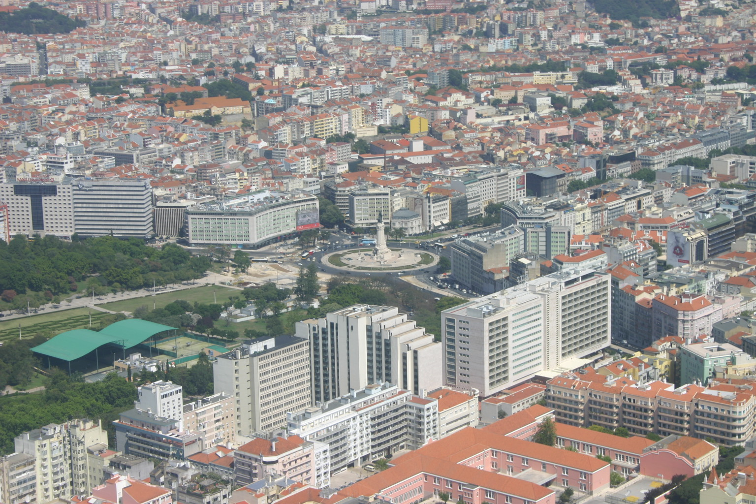 Author: António M.L. Cabral; Camera: Canon EOS 300D with Canon EFS 18-55mm lenses; Date: 23-06-2006 Location: Lisboa